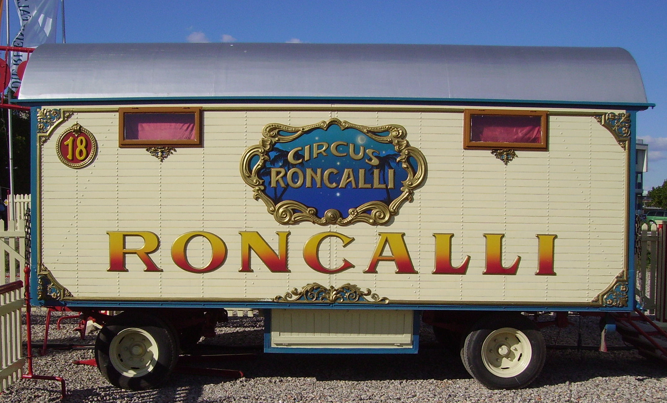 Circus Roncalli (Germany)